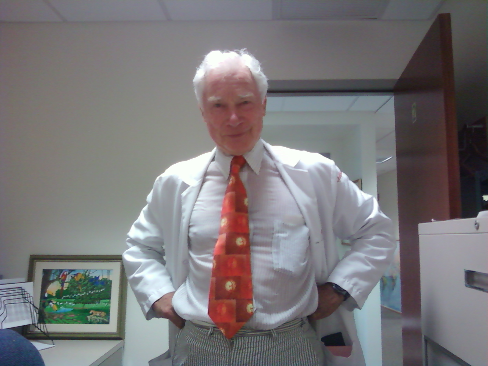 George L. Spaeth, MD, July 9, 2010.